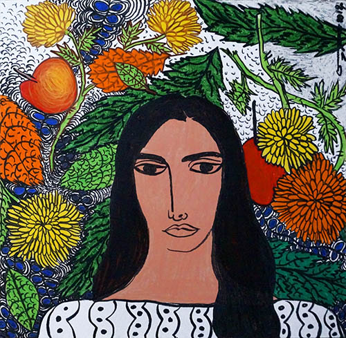 "Autumn portrait". 2018 Oil pastels on paper